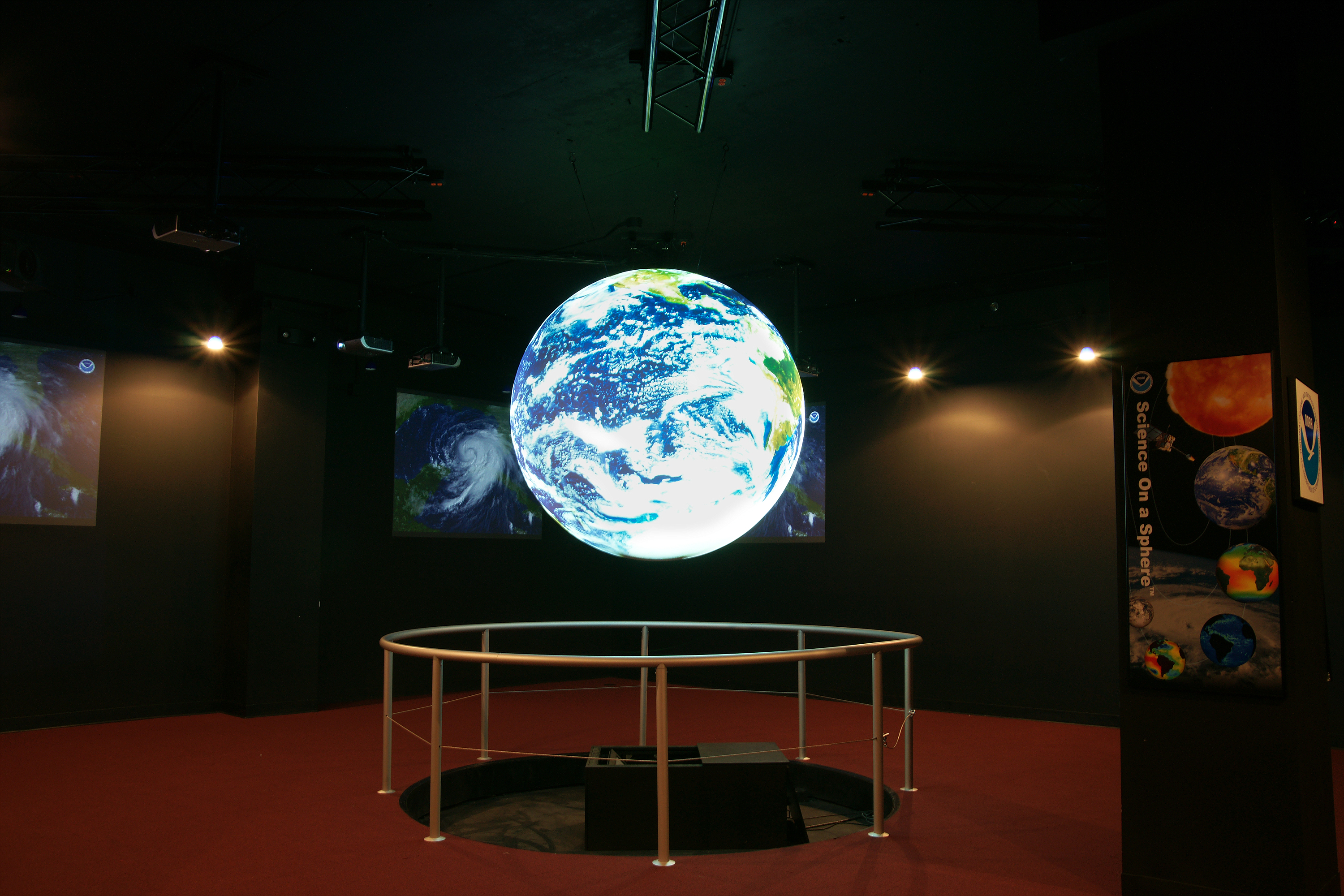 NOAA's Science On a Sphere® in the Planet Theater at the Earth System Research Laboratory in Boulder, CO